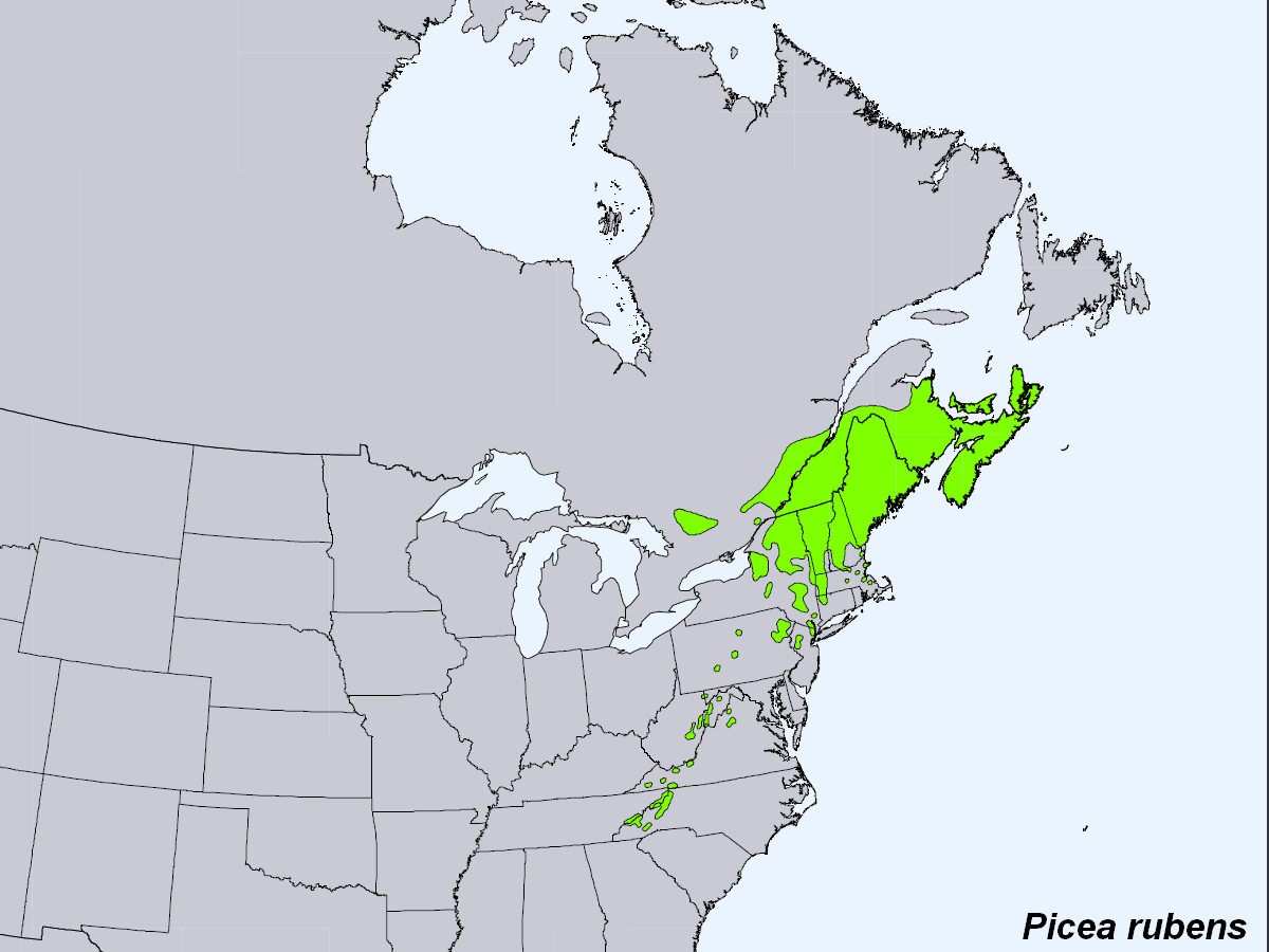 Range map of red spruce (Picea rubens)